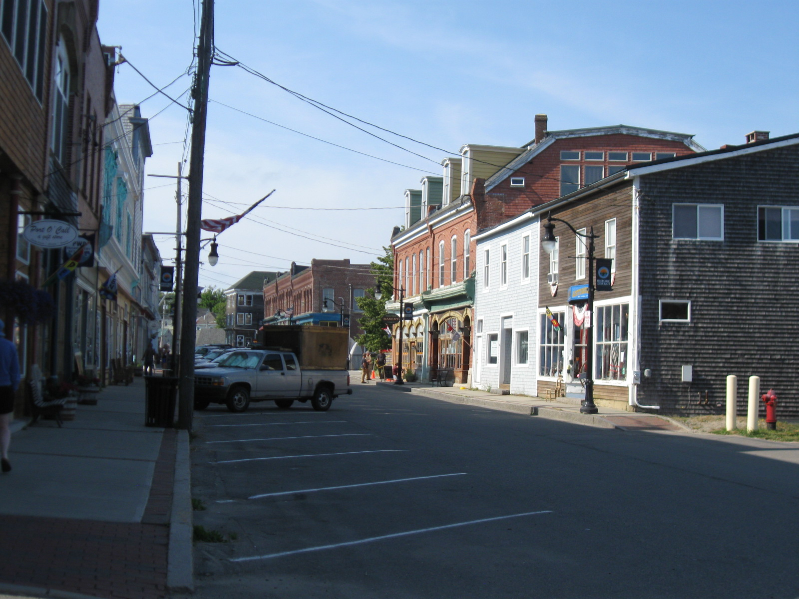 View of Water Street, downtown Eastport.